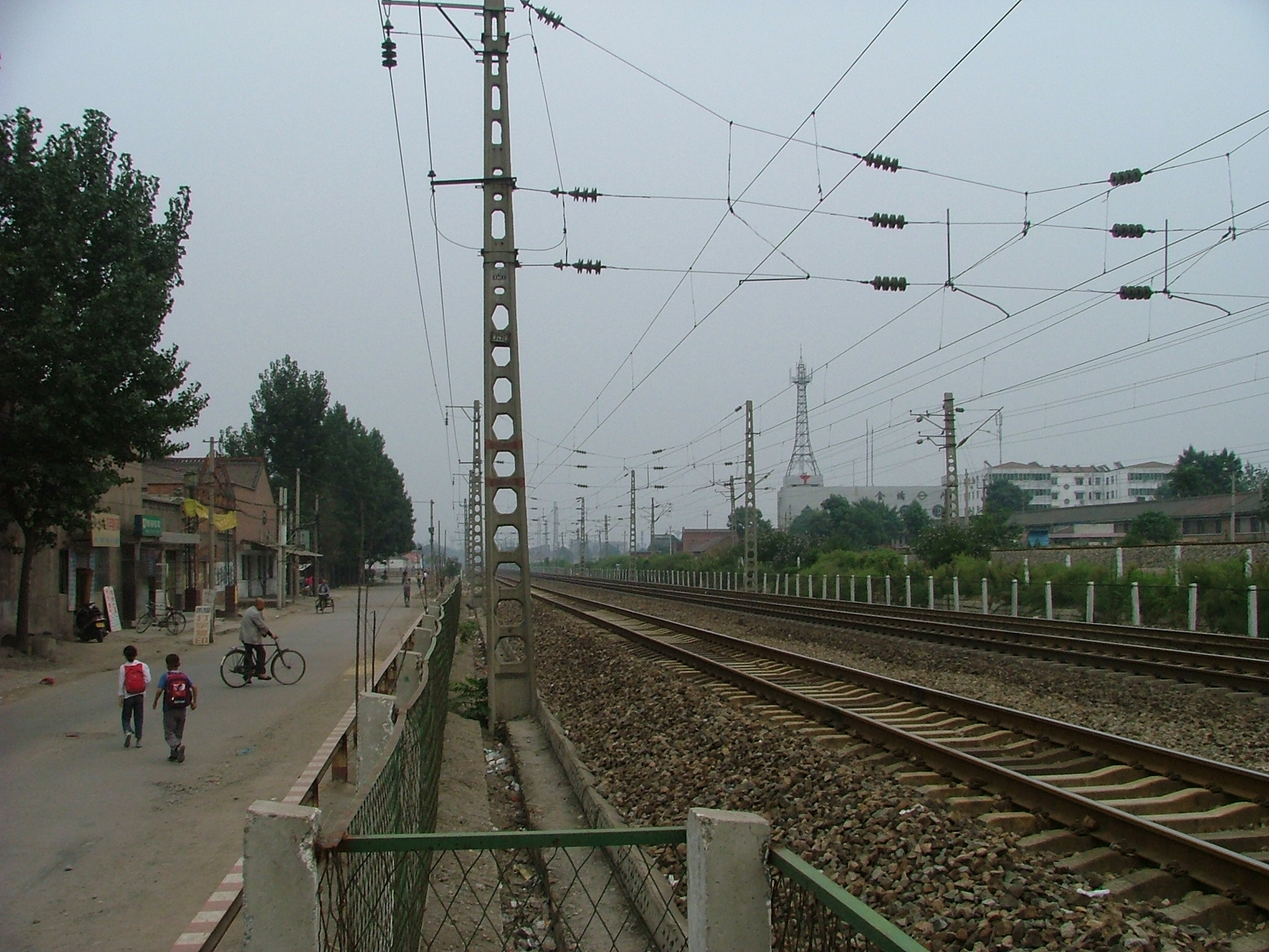 Longhai Railway @ Chencang District, Baoji, Shaanxi, China.